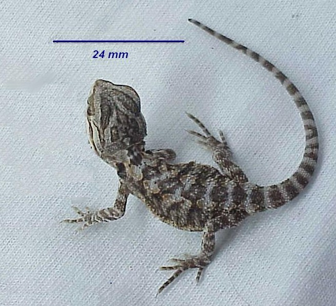 Close up of newborn Bearded Dragon showing size to scale.